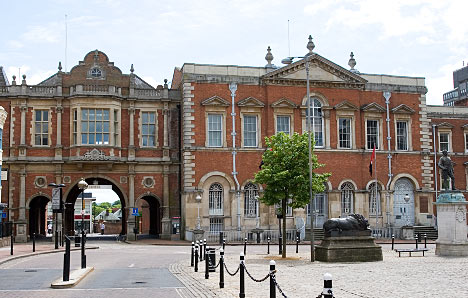 Aylesbury Market Square Bucks